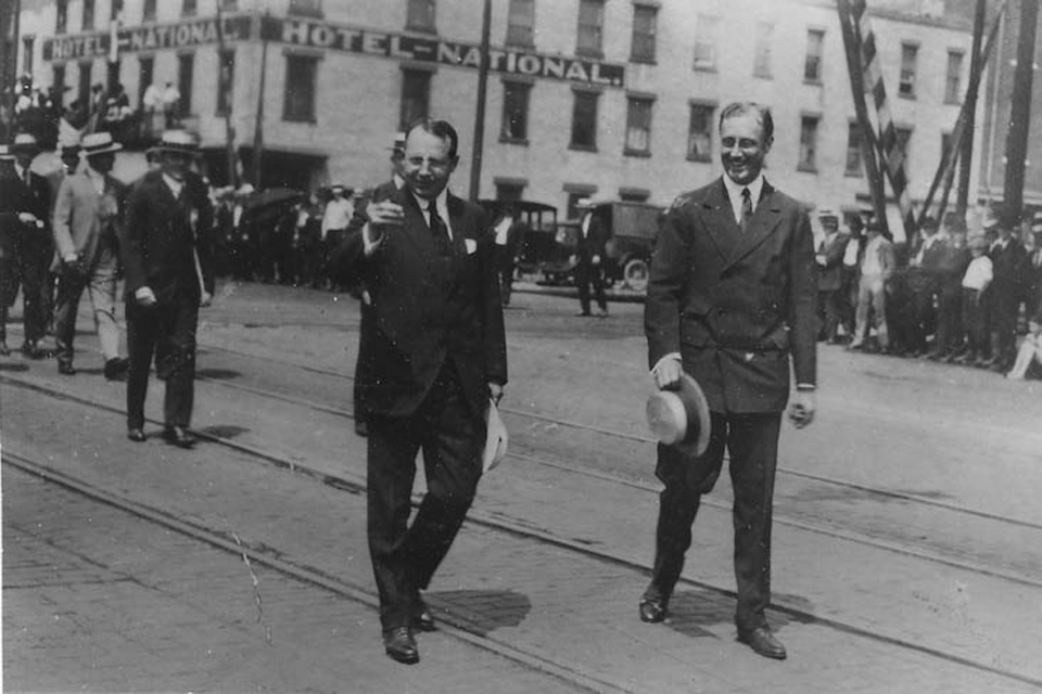 1920 election